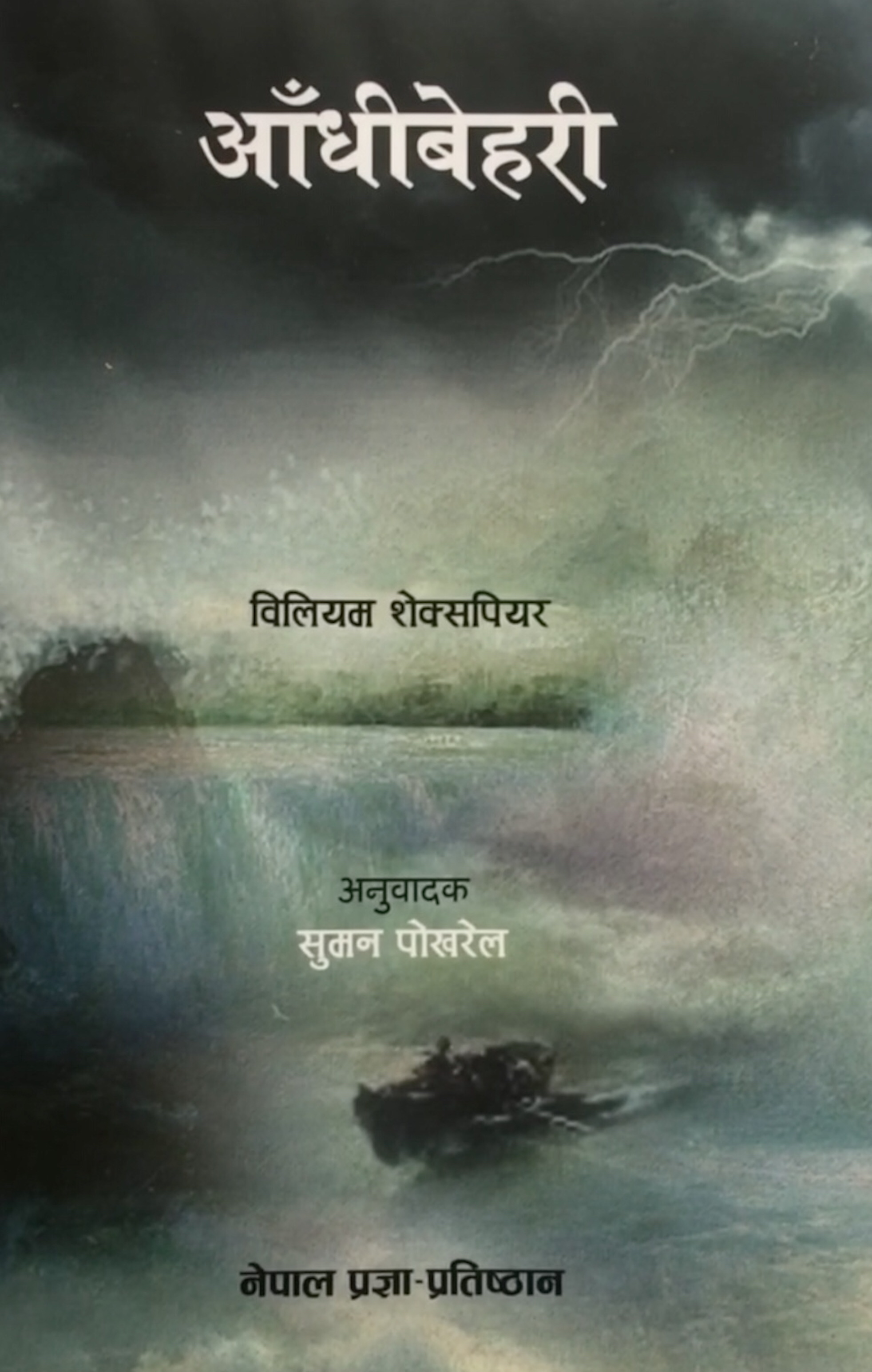 Cover of 'Aandhibehari', Nepali translation of William Shakespeare's Play 'The Tempest' translated by Suman Pokhrel published by Nepal Academy in October 2018